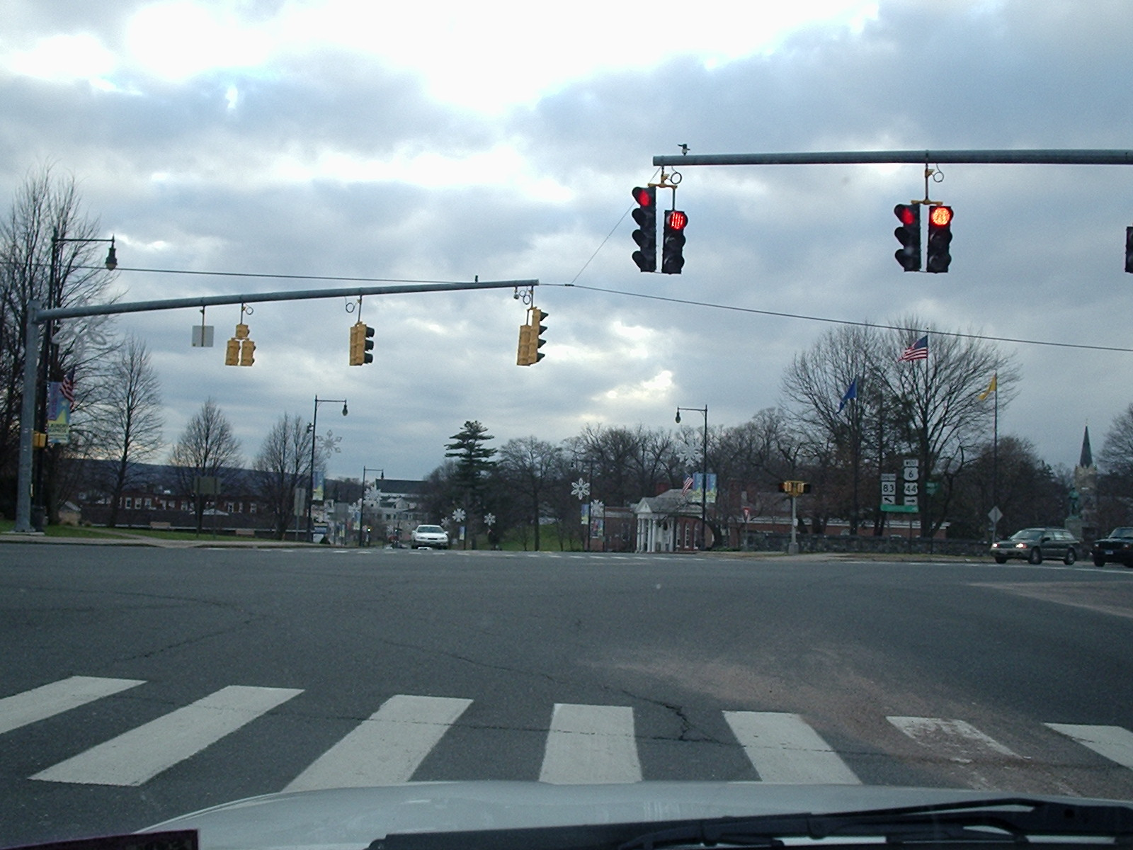 Main Street (South looking South-bound over Center Street) - Manchester, CT Building directly ahead (with white columns) is Mary Cheney Library.